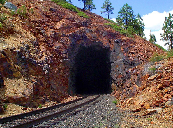 Central Pacific Railroad Tunnel #3 located at MP 180.1 near Cisco, CA, opened in 1866 and still in daily use today on Track #1 of the now UPRR Sierra Grade. Original digital photograph taken by the uploader (Centpacrr) in August, 2003.